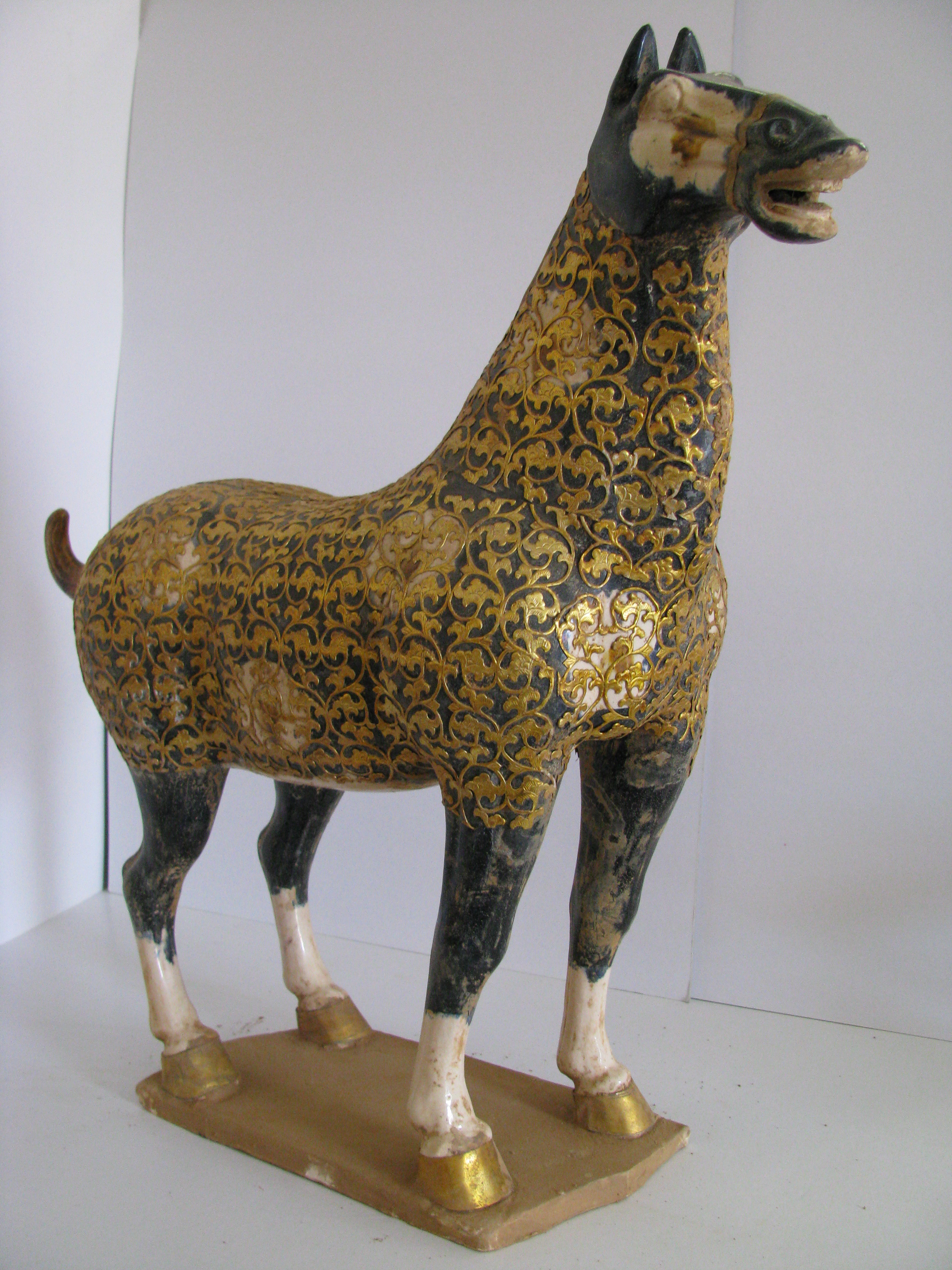 Tang Dynasty figurine horse with gilded filigree